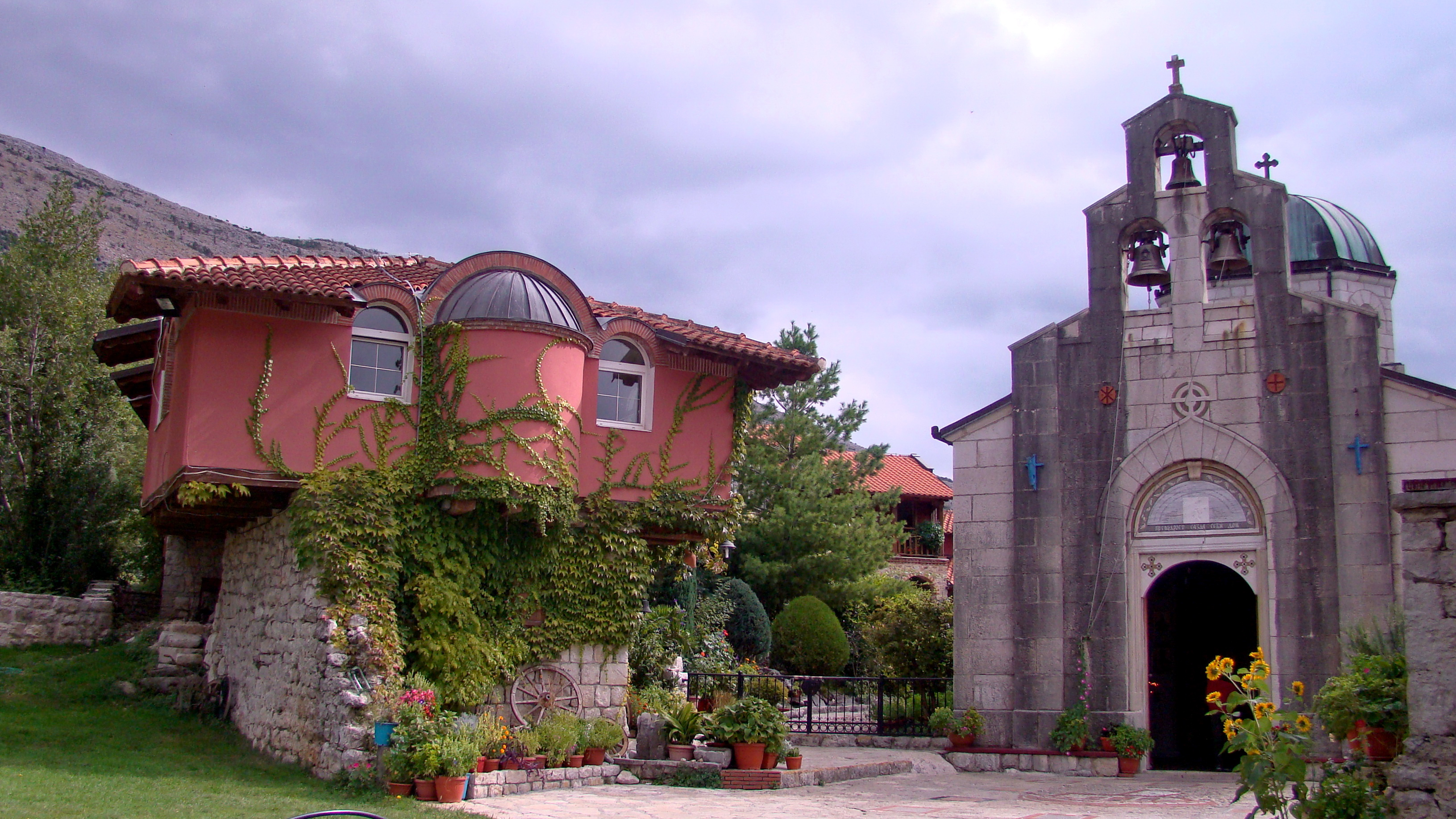 Српски (ћирилица): Манастир Тврдош This image was uploaded as part of Trace of Soul 2016.